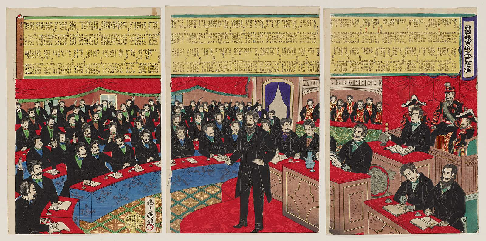 Illustration of the Imperial Diet House of Commons with a Listing of all Members